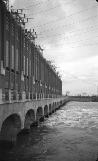 The Beauharnois hydroelectric generating project in 1941.